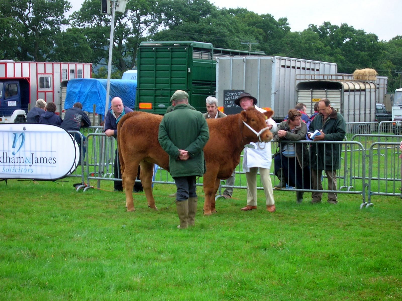 Example of Judging in the ring